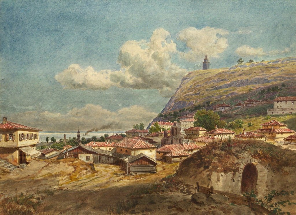 Nikopol by Felix Kanitz